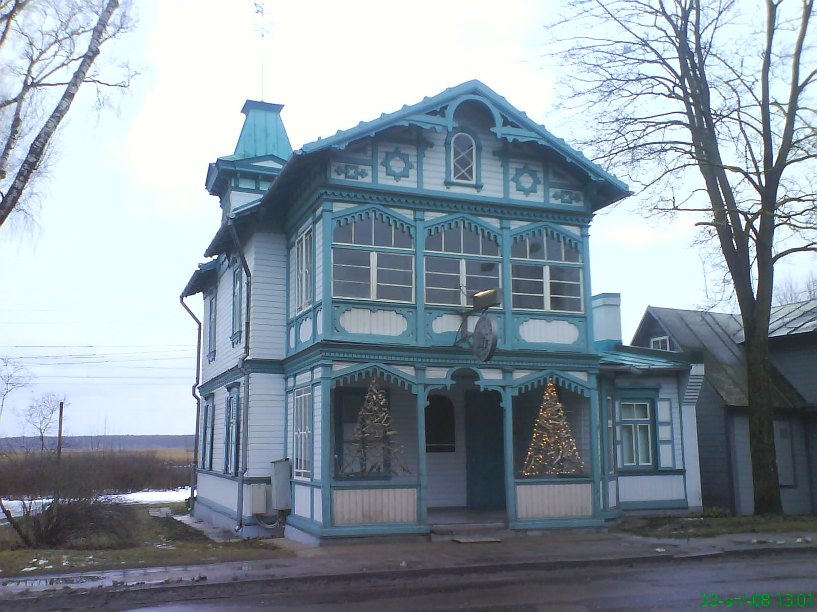 Aspazija's house in Jūrmala